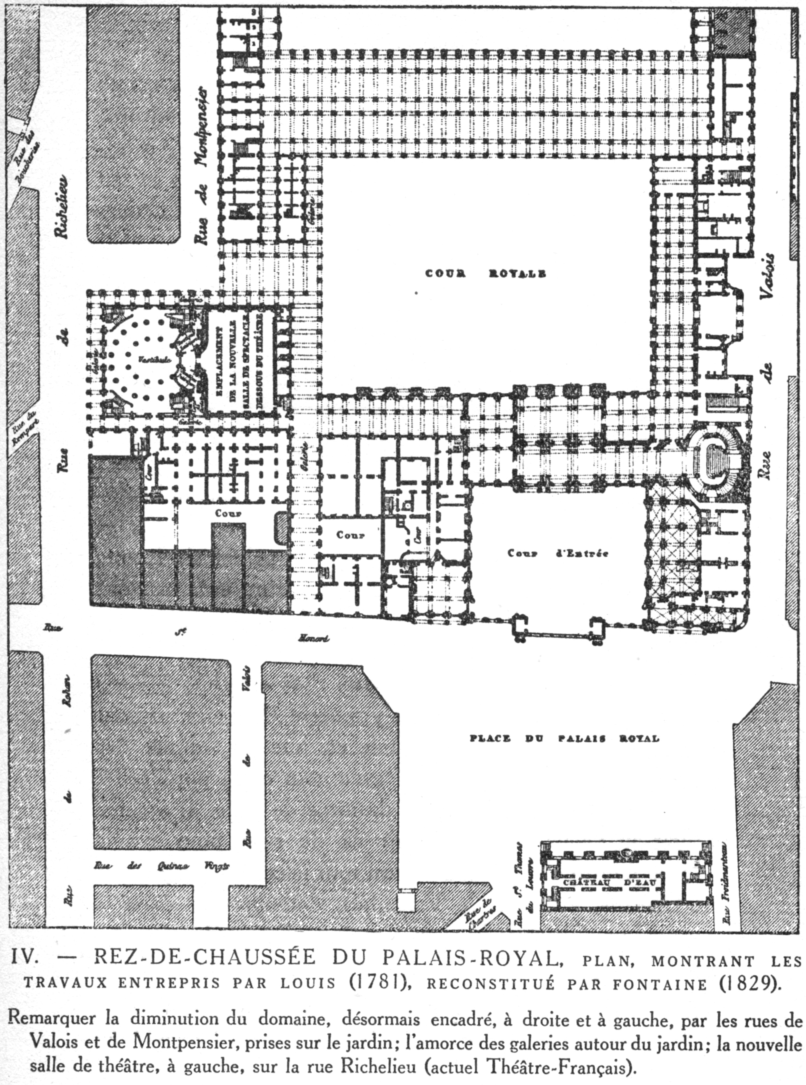 Plan of the ground floor of the Palais-Royal in Paris as it was c. 1790 after the completion of the Salle Richelieu (which in 1799 became the principal theatre of the Comédie-Française). The plan also shows that the rue de Valois was extended south to the rue Saint-Honoré, through the site of the previous theatre, which had been destroyed by fire in 1781. The modifications were undertaken by the architect Victor Louis beginning in 1781. This plan was reconstructed in 1829 by the French architect Pierre-François-Léonard Fontaine.